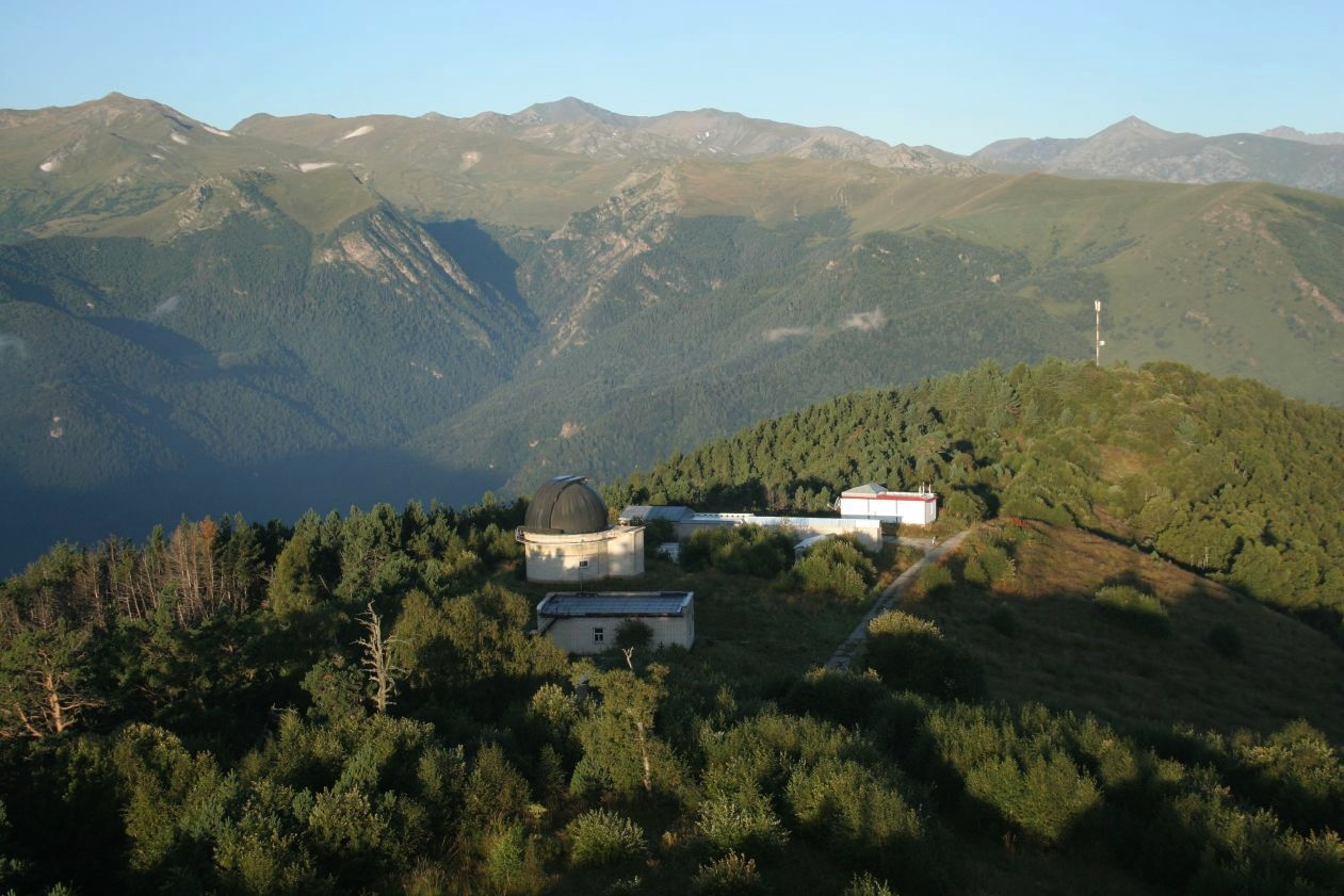 Engelhardt Observatory, Zelenchukskaya Station, MPC COD: 114